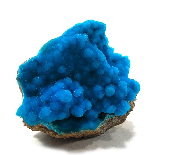 Hemimorphite Locality: Yunnan Province, China (Locality at ) In all my years as a collector, I don’t remember seeing a more vivid, rich, almost teal blue-to royal blue color in hemimorphite. Lustrous spherical aggregates of microcrystals, up to .7 cm, completely cover the host matrix. Color wise, this is a feast for the eyes. 7.1 x 6.5 x 3.8 cm